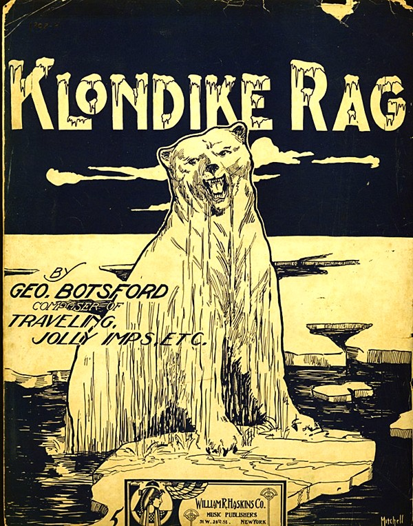 Klondike Rag, 1908